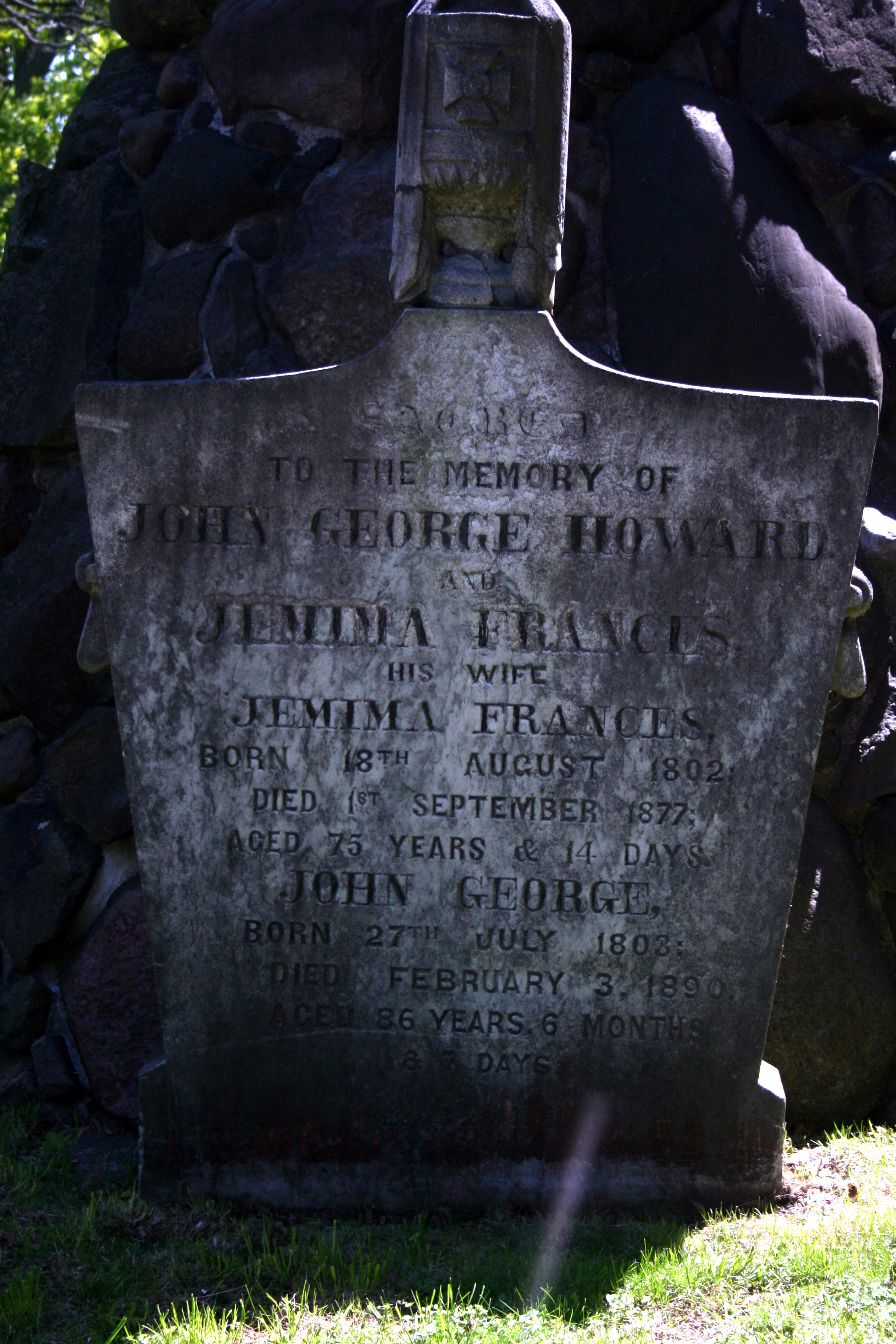 Final resting place of John George Howard.